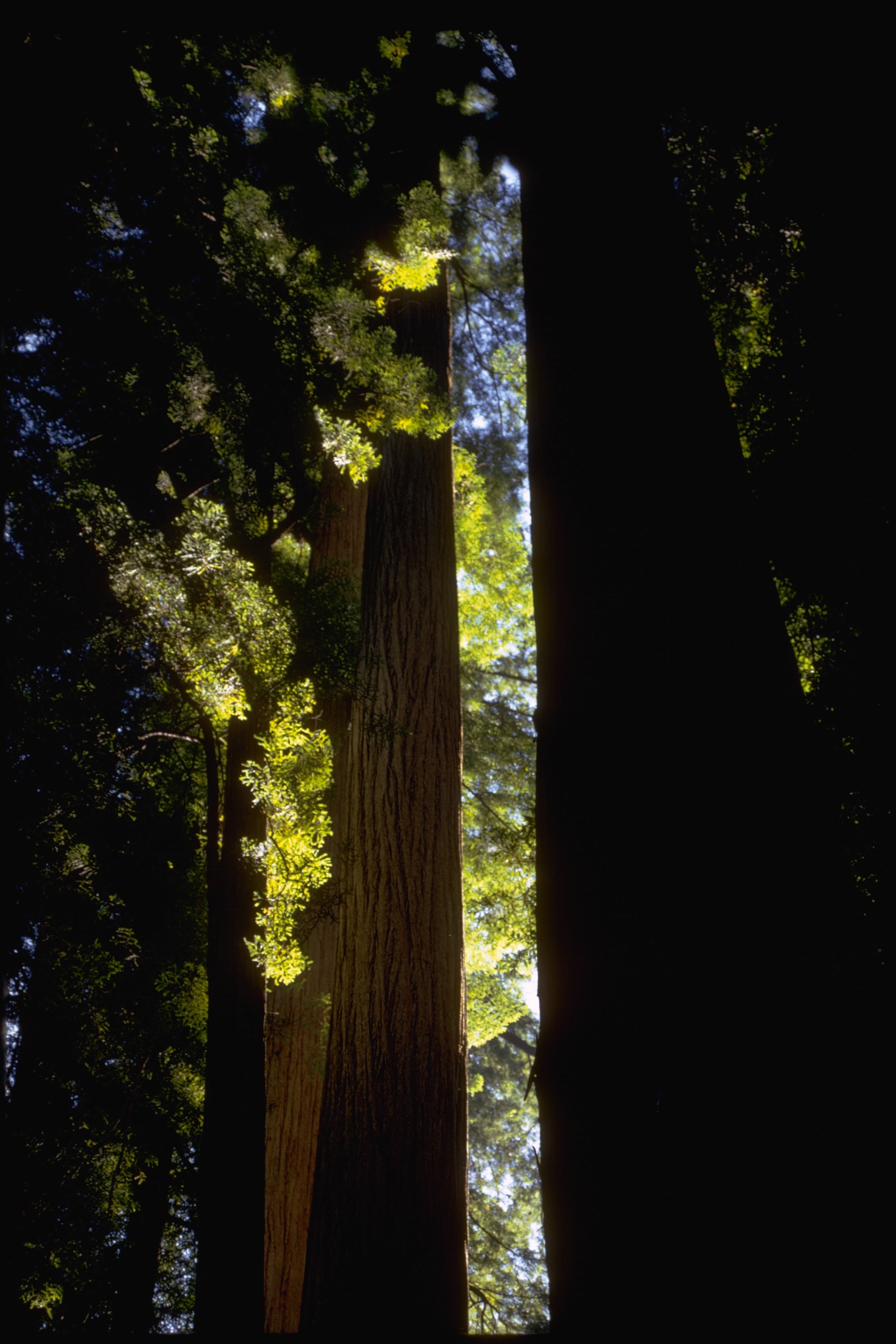 Redwood National Park, California, USA. Light and shadows in Coastal Redwood (Sequoia sempervirens) trees.